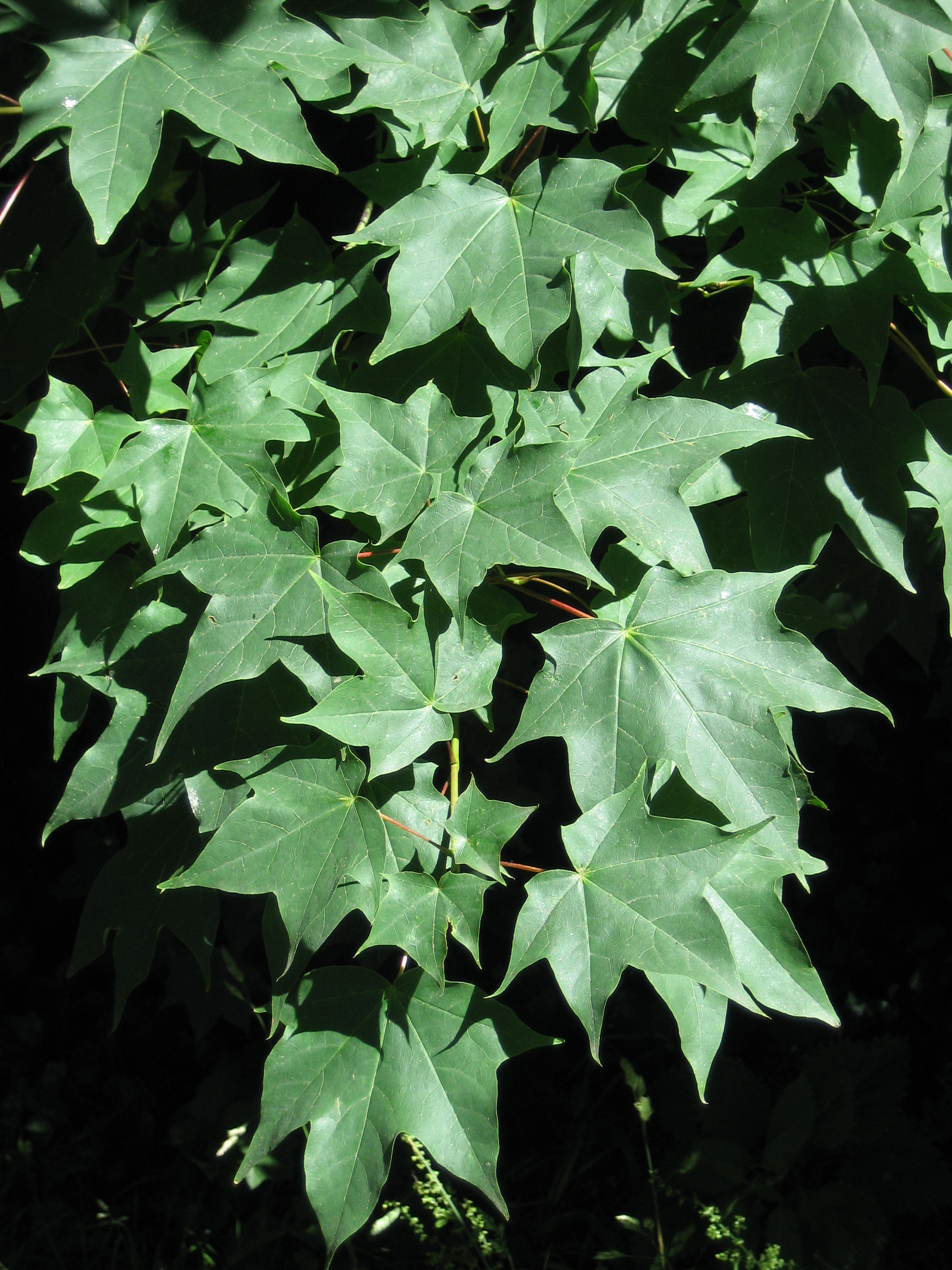 Acer cappadocicum, cultivated, Armstrong Park, Newcastle, Northumberland, UK